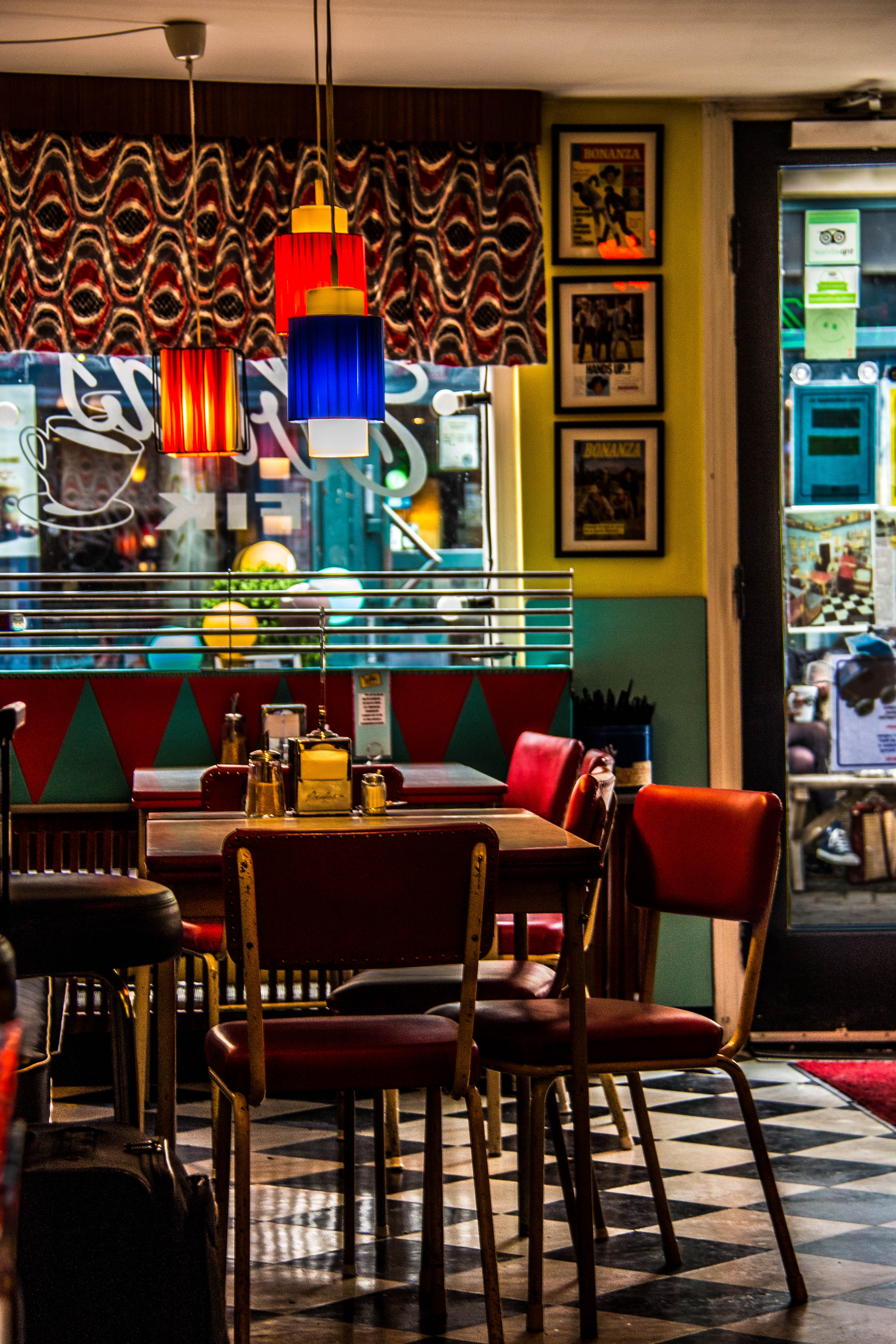 Interior at Ebbas fik